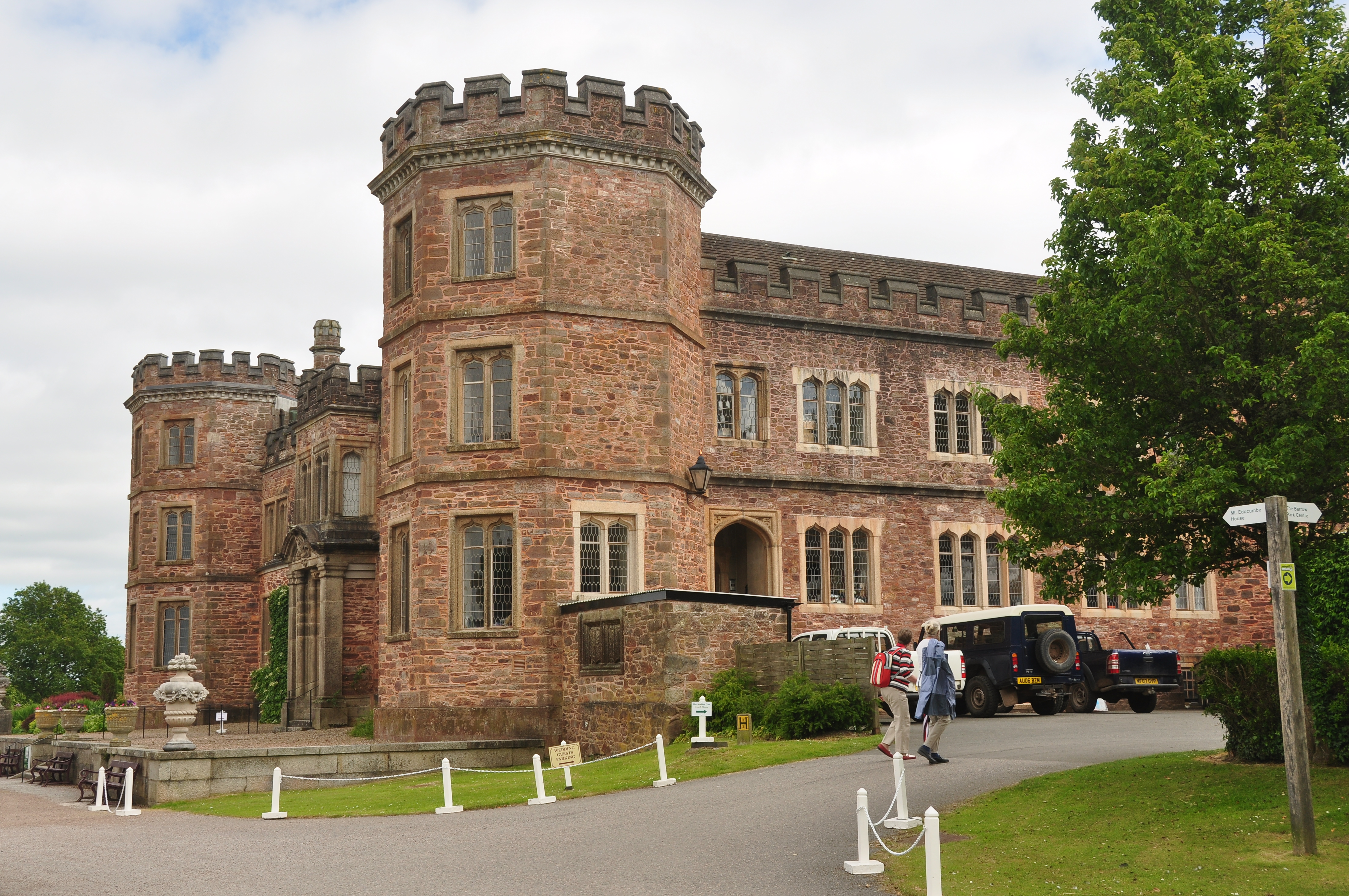 Mount Edgcumbe House